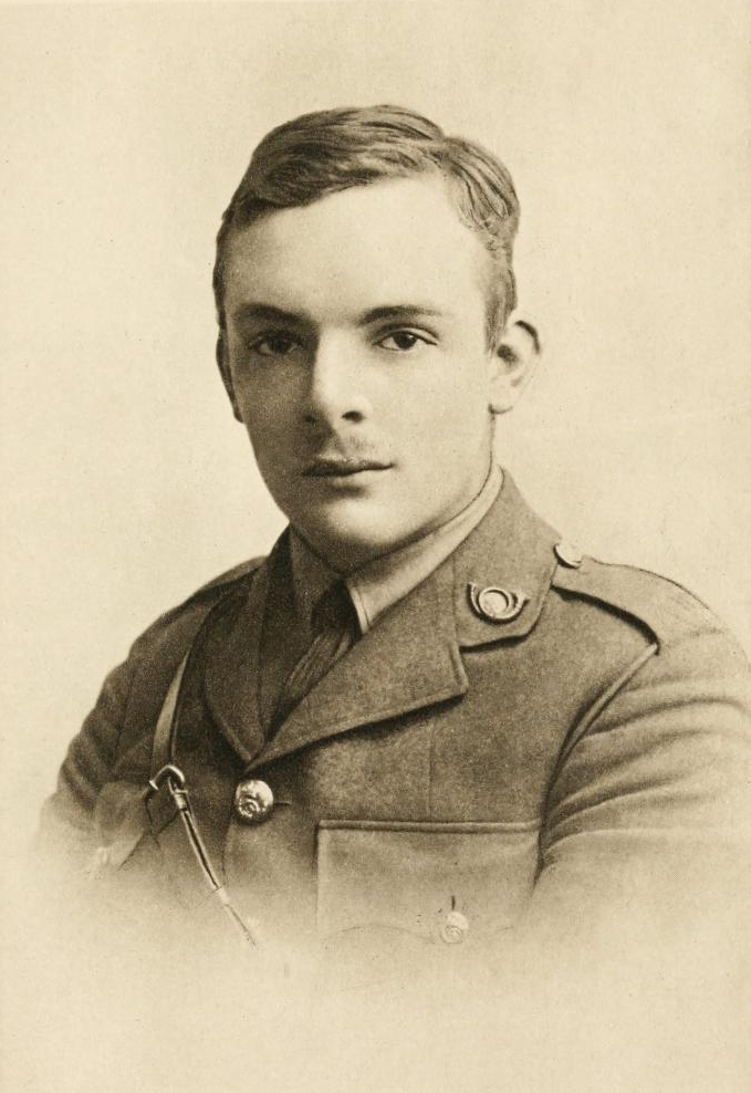 Image of Harold Parry (facing page 80) from For remembrance: soldier poets who have fallen in the war